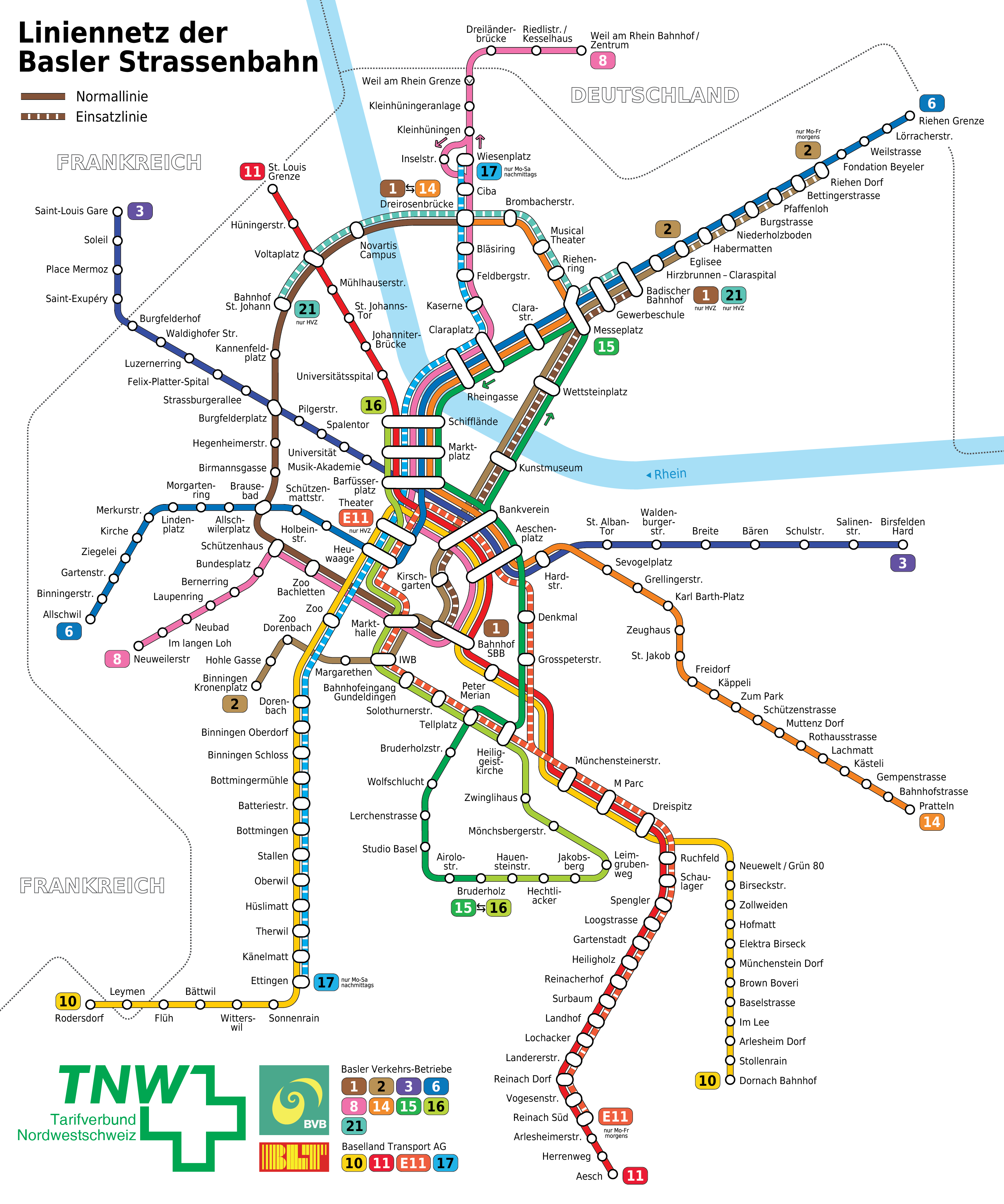 Map: Basel streetcar network